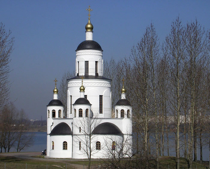 Church of St George, Minsk